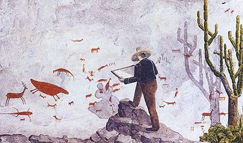 Danish naturalist copying rock paintings at Lagoa Santa, Brazil. Picture by P.A. Brandts who assisted him as an illustrator